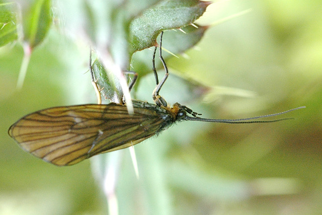 Picture taken in Commanster, Belgian High Ardennes . Species: Notidobia ciliaris - Misidentified: this is Oligotricha striata!